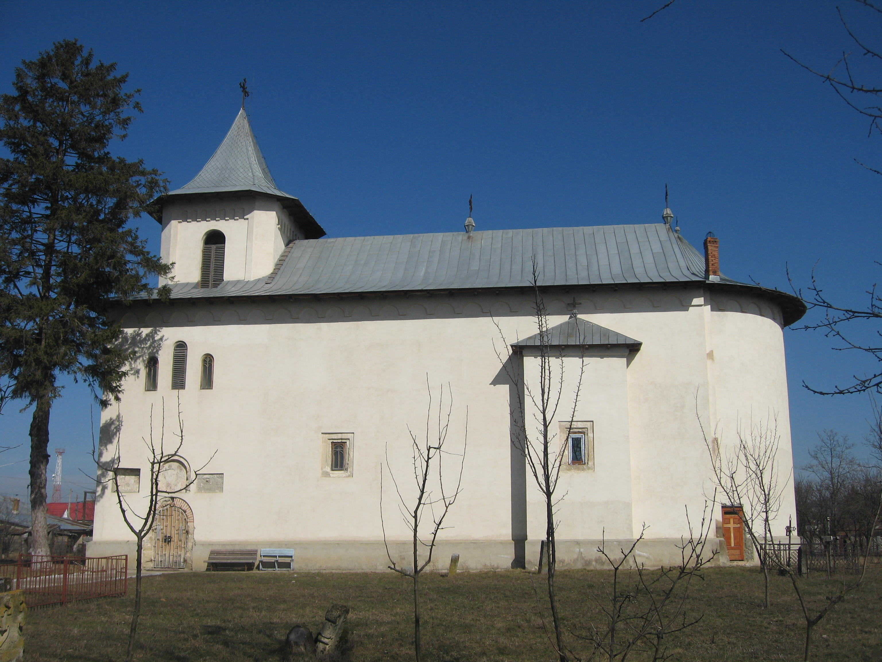 Biserica Sf. Voievozi din Scânteia